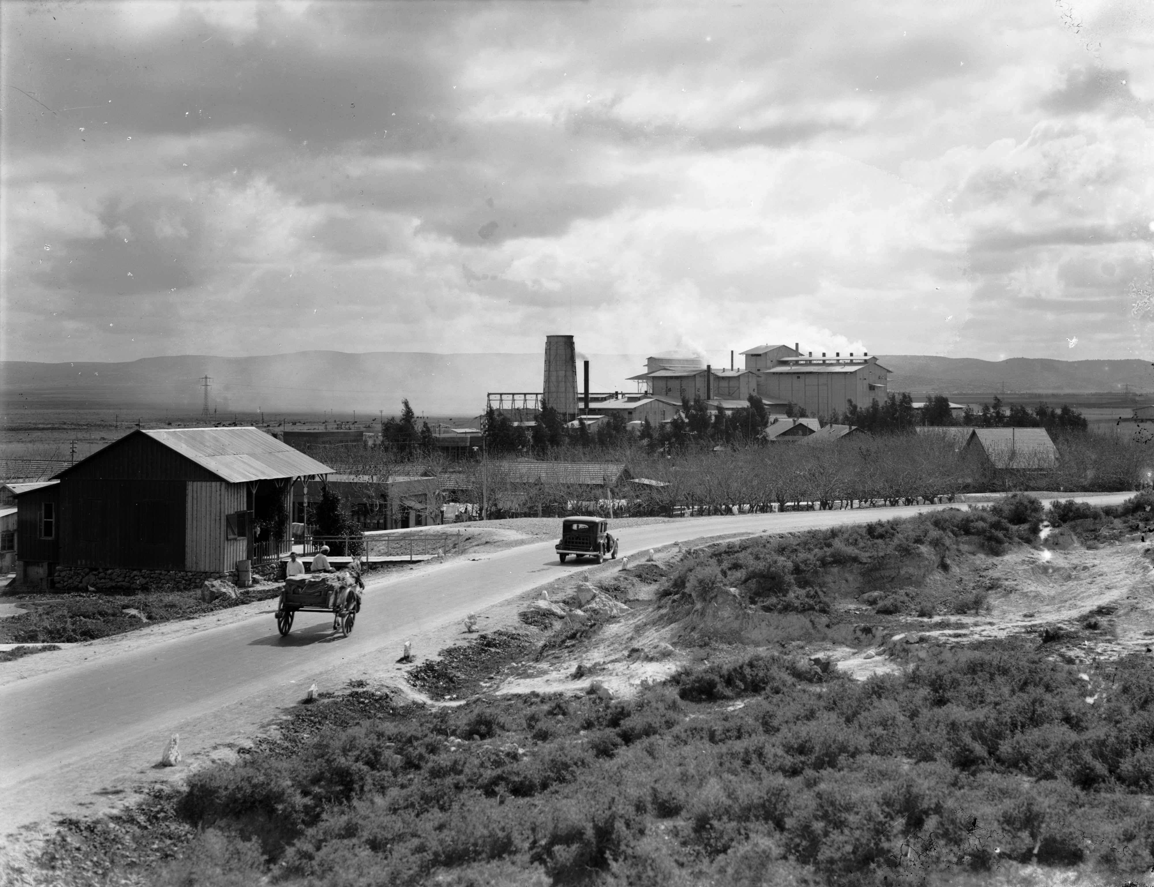 Nesher cement works, Haifa. The Portland Cement Company Nesher - Historical Image - In the city Nesher Israel. The factory established in 1924